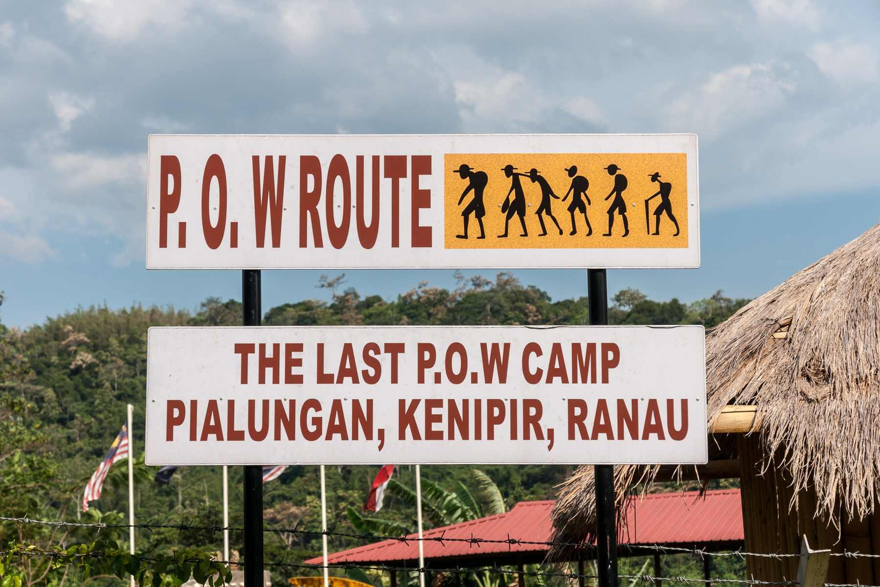 Ranau, Sabah: Last POW Camp Memorial